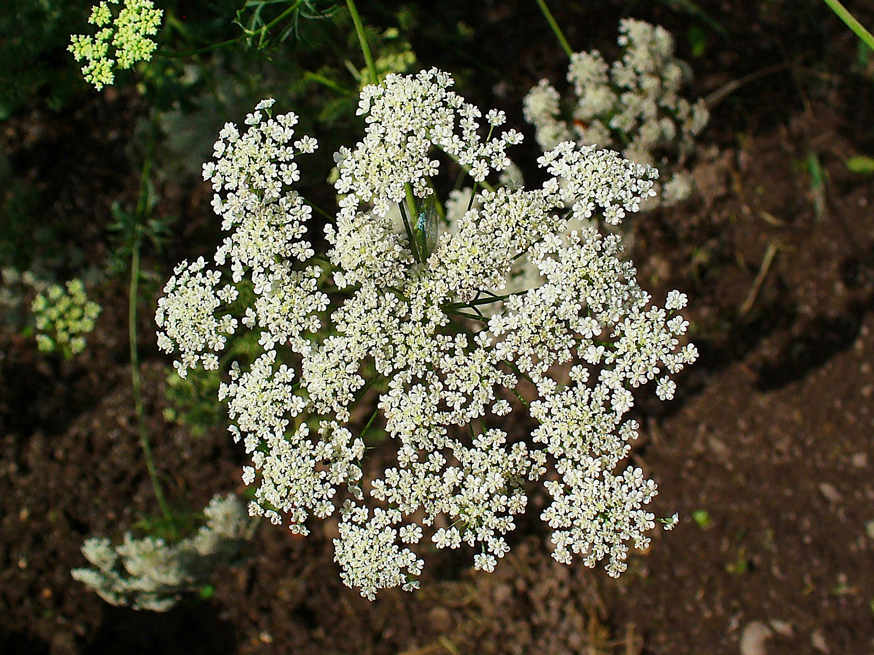 Ammi majus, Apiaceae, Bishopsweed, Bullwort, Greater Ammi, Lady’s Lace, Laceflower, inflorescence.